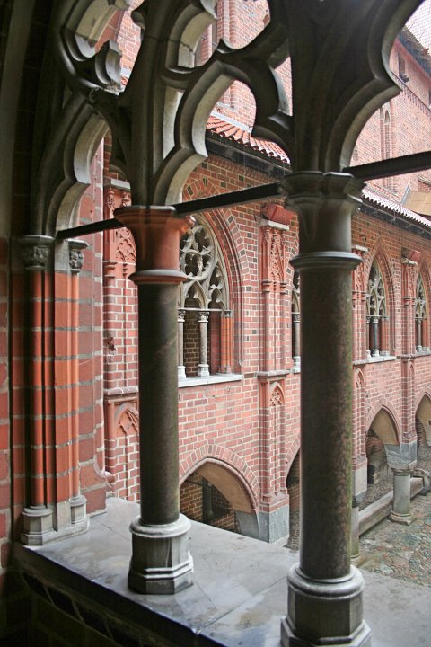 Malbork, window at the cloister in High Castle